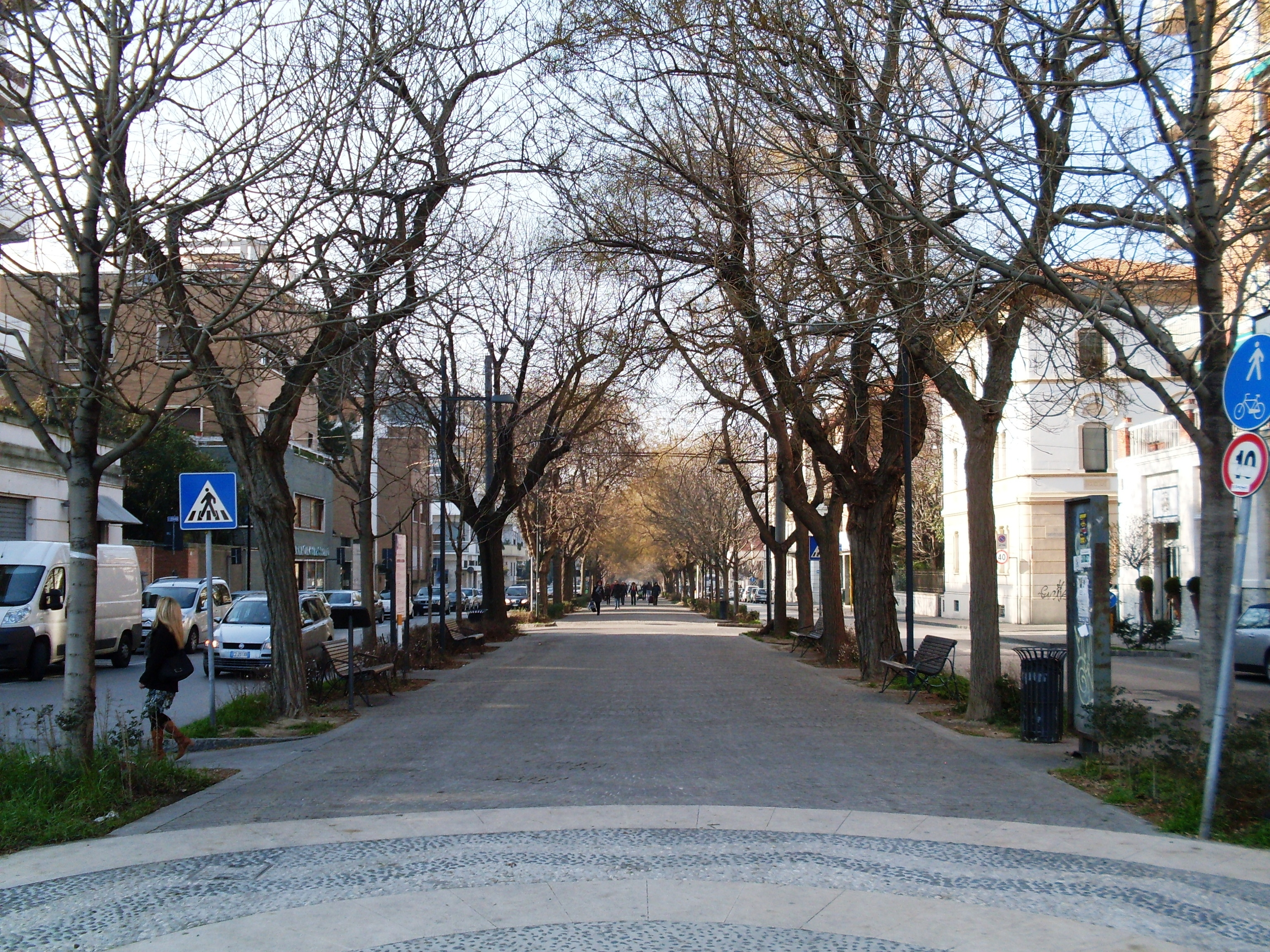 Italy Ancona Passetto - Vittoria Avenue